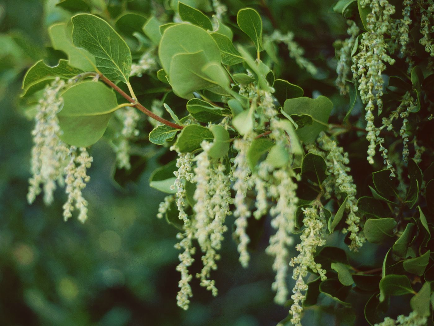 Garrya fremontii — Frémont's silktassel, (Garryaceae). On the Lower Yosemite Fall Trail in Yosemite Valley, Yosemite National Park, (Mariposa County), California/Kalifornien, U.S.